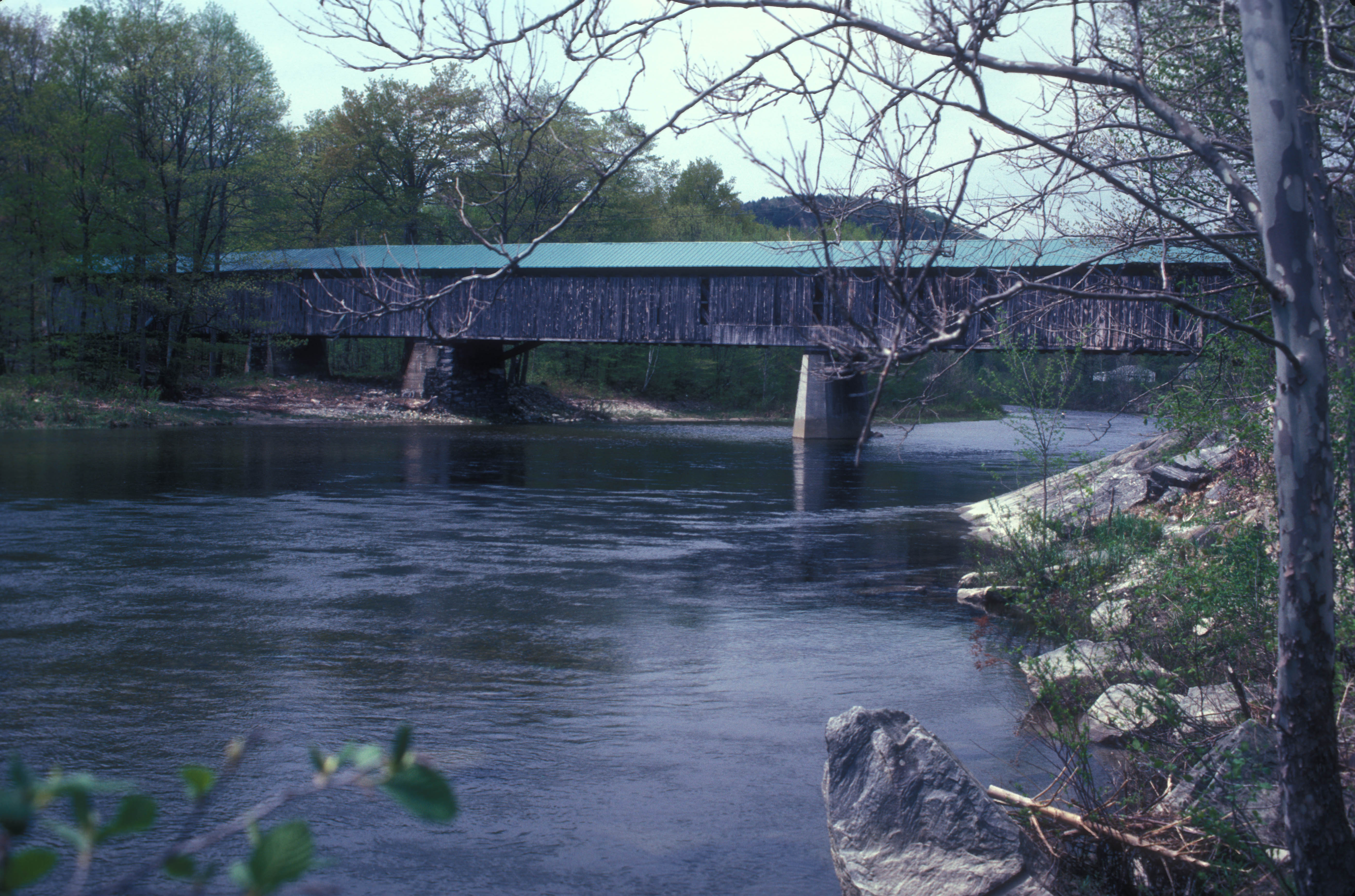 290’, 1870, TWO KING AND ONE TOWN SPAN OVER WEST RIVER